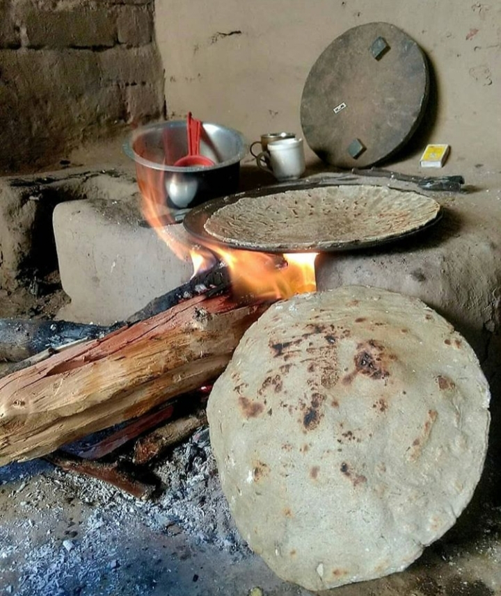 Preparation of bhakri (Maharashtrian flat bread)